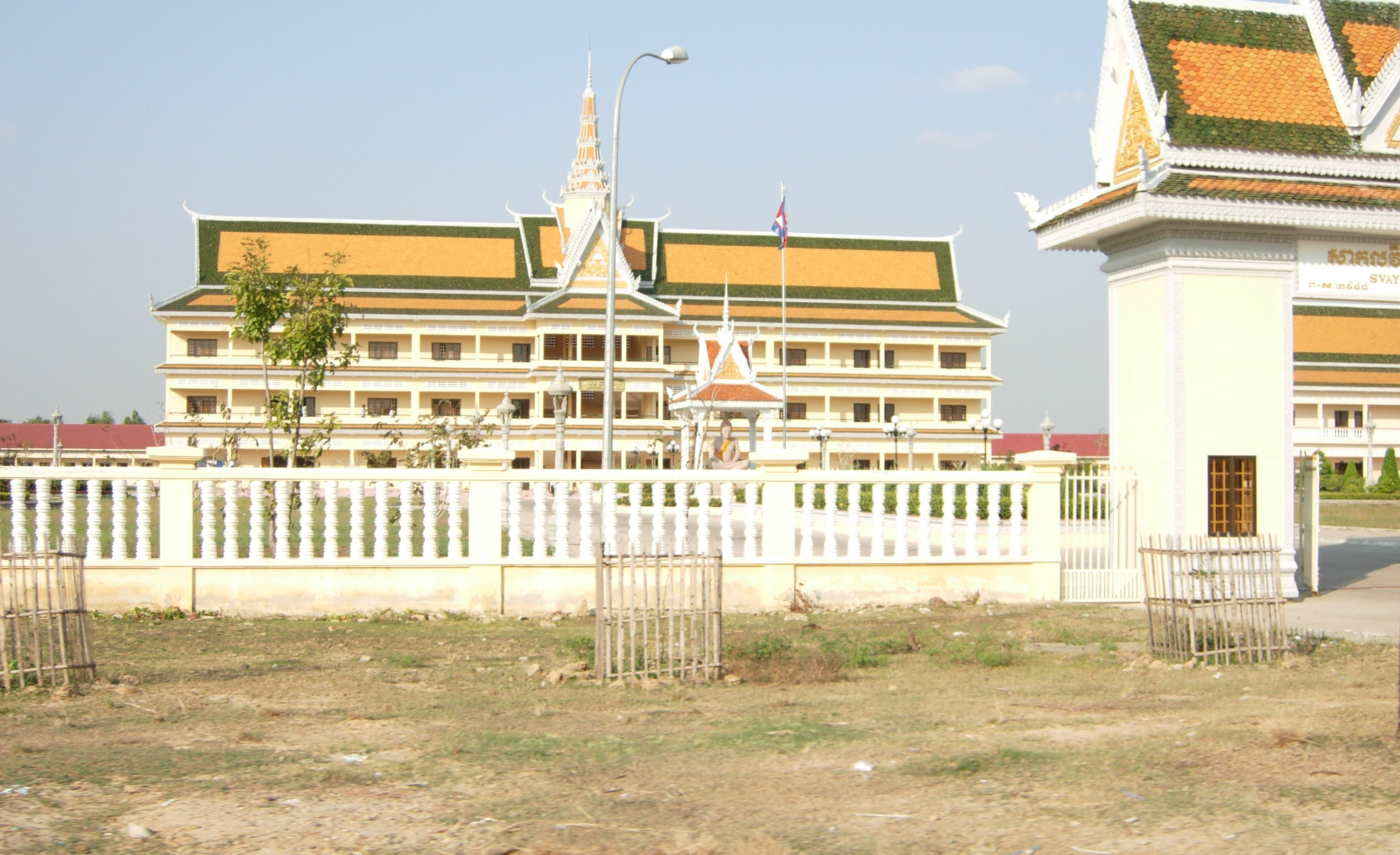 Central building of Svay Rieng University, December 2008